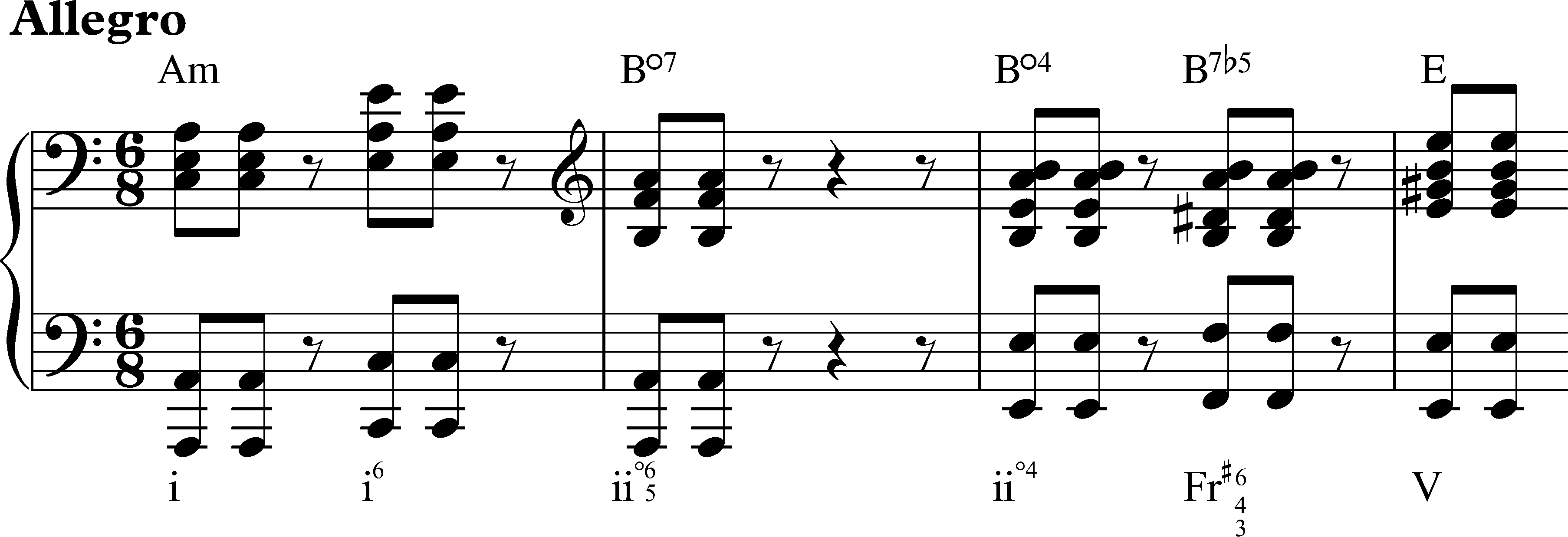 French sixth chord in Schubert's D.795, No. 5, "Am Feierabend" ("The Hour of Rest").